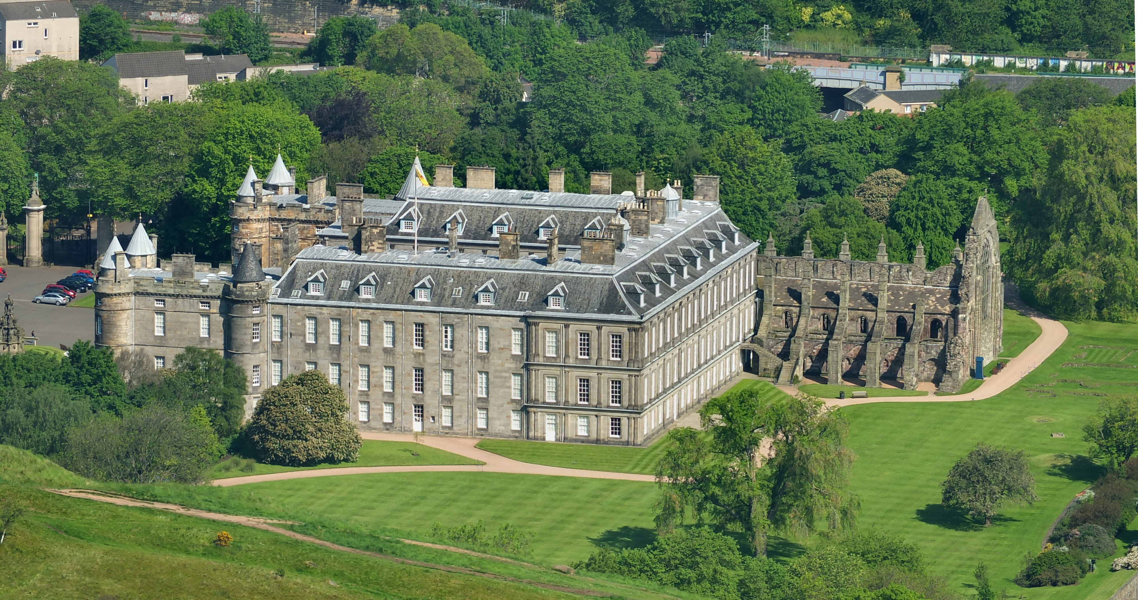 Holyrood Palace as seen from Arthur's Seat, Edinburgh.